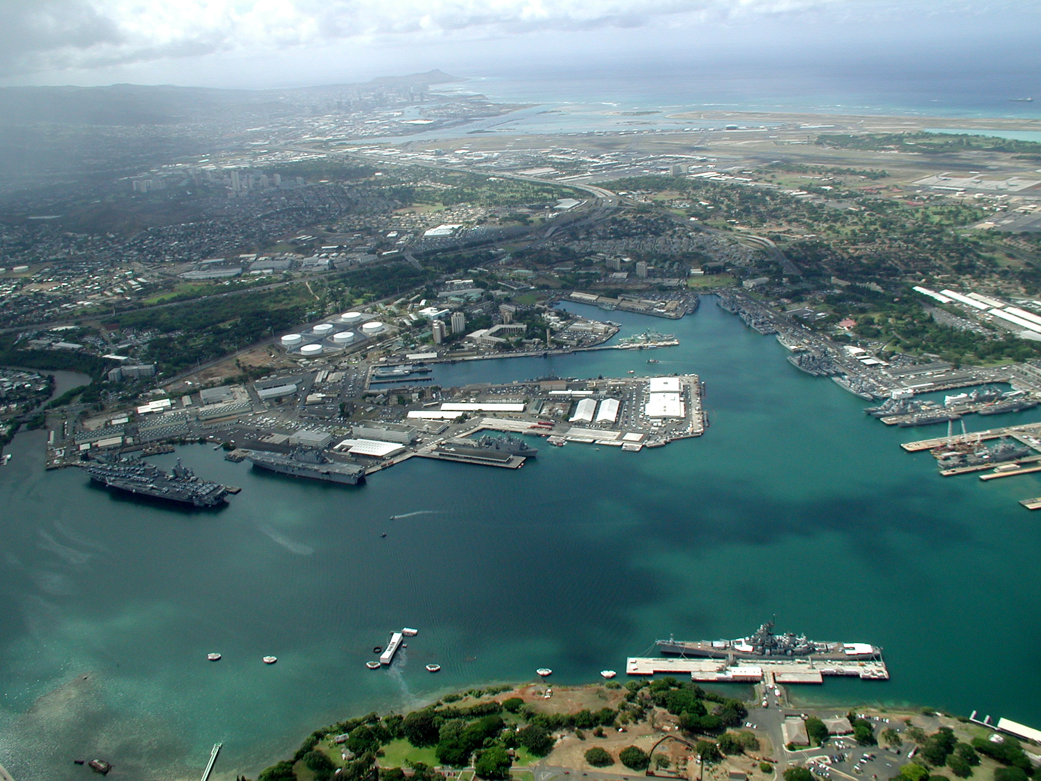 Pearl Harbor, Hawaii (June 30, 2004) - Ships from seven participating nations sit pier side at Pearl Harbor, Hawaii, awaiting the start of exercise Rim of the Pacific (RIMPAC) 2004. RIMPAC is the largest international maritime exercise in the waters around the Hawaiian Islands. This years exercise includes seven participating nations; Australia, Canada, Chile, Japan, South Korea, the United Kingdom and the United States. RIMPAC is intended to enhance the tactical proficiency of participating units in a wide array of combined operations at sea, while enhancing stability in the Pacific Rim region. U. S. Navy photo by Photographer's Mate 2nd Class (NAC) John T. Parker (RELEASED) For more information go to: /